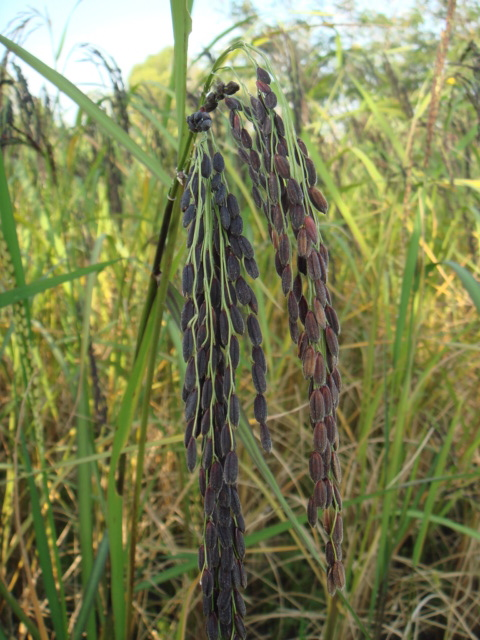 Ripe grains of black glutinous rice